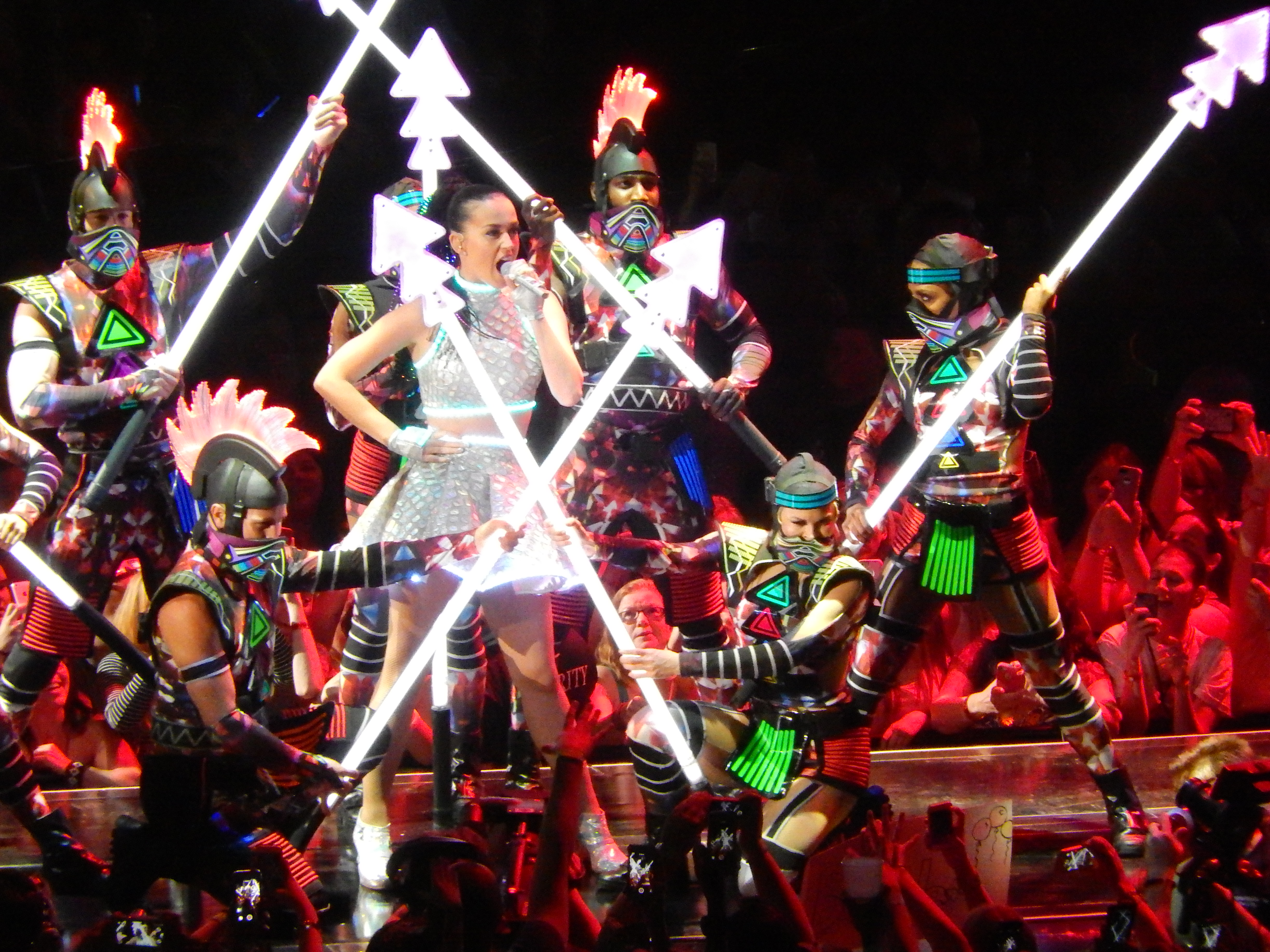 Katy Perry performing "Roar" at the Prudential Center in Newark, New Jersey on July 11, 2014.